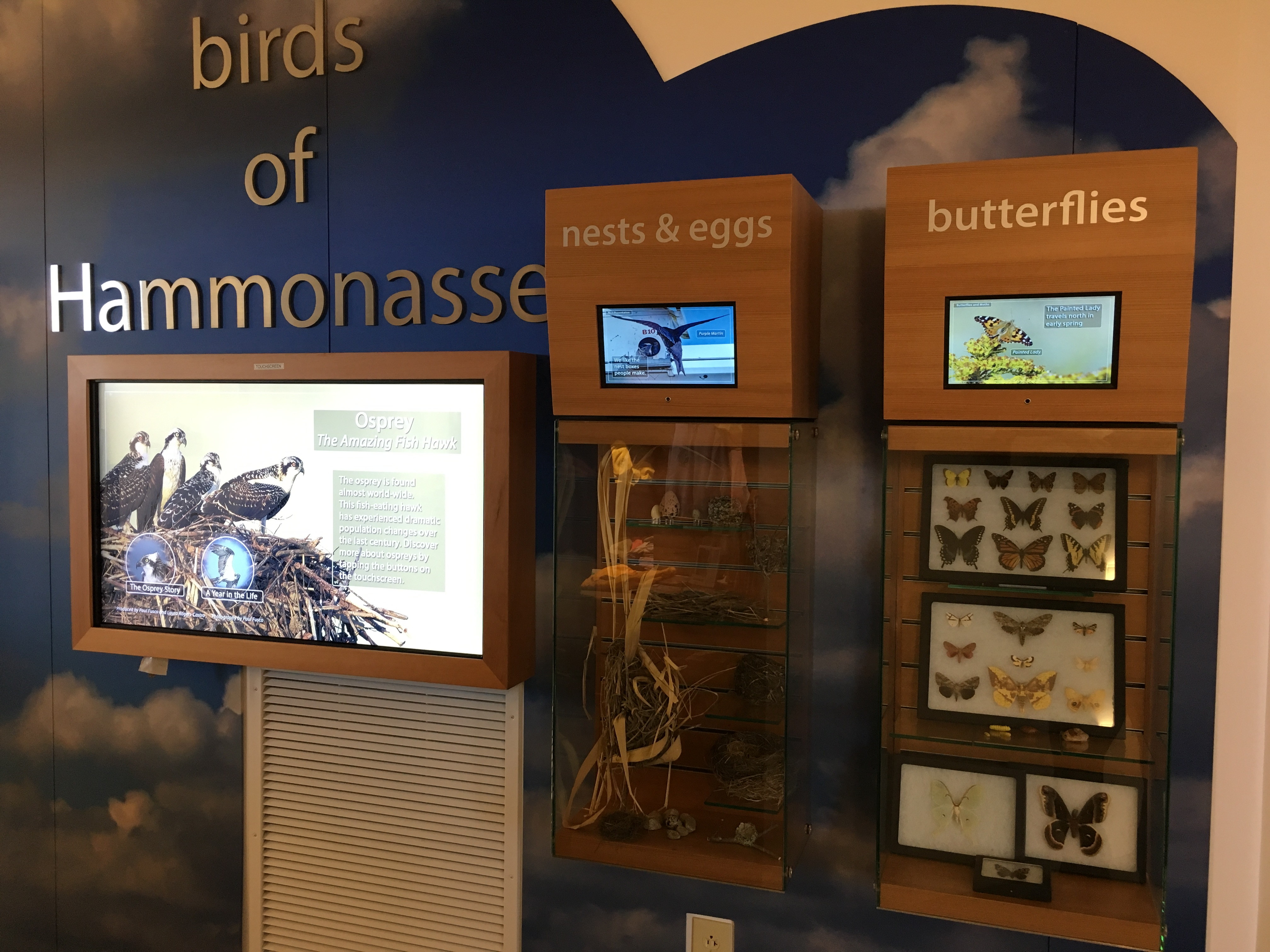 Display about birds of Hammonasset Beach State Park at the Meigs Point Nature Center